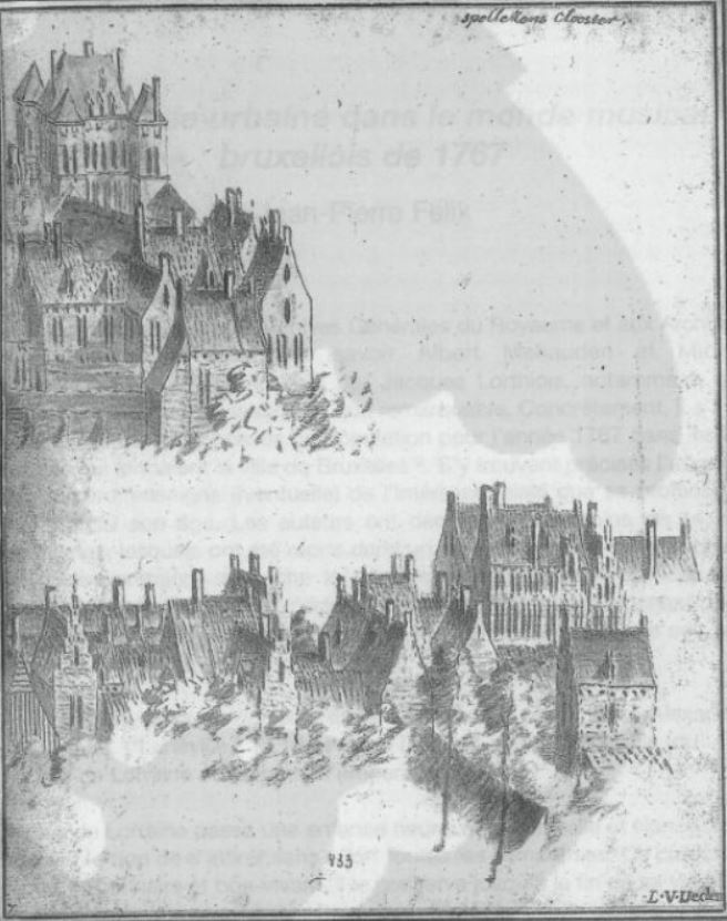 Pencil drawing of the dominican monastery in Brussels, ca. 1700 (city archives).